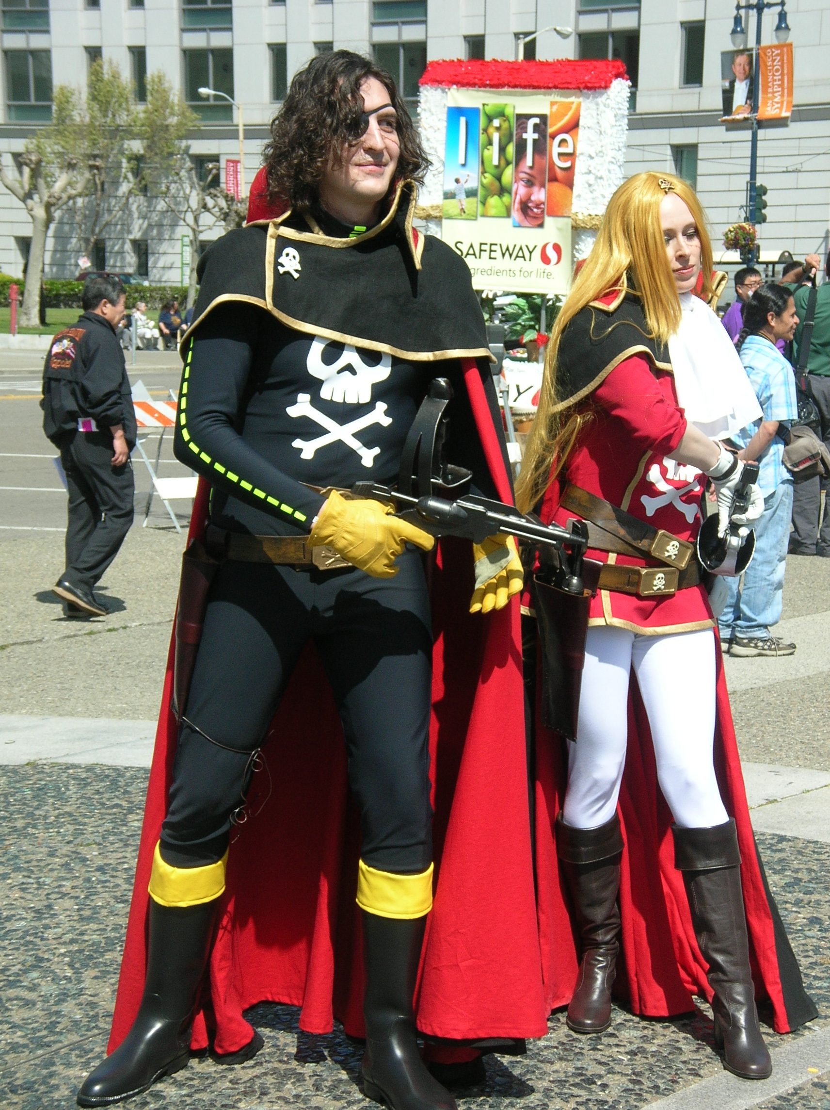 Cosplayers portraying Captain Harlock and Queen Emeraldas from Captain Harlock competing in the costume contest at the Northern California Cherry Blossom Festival.